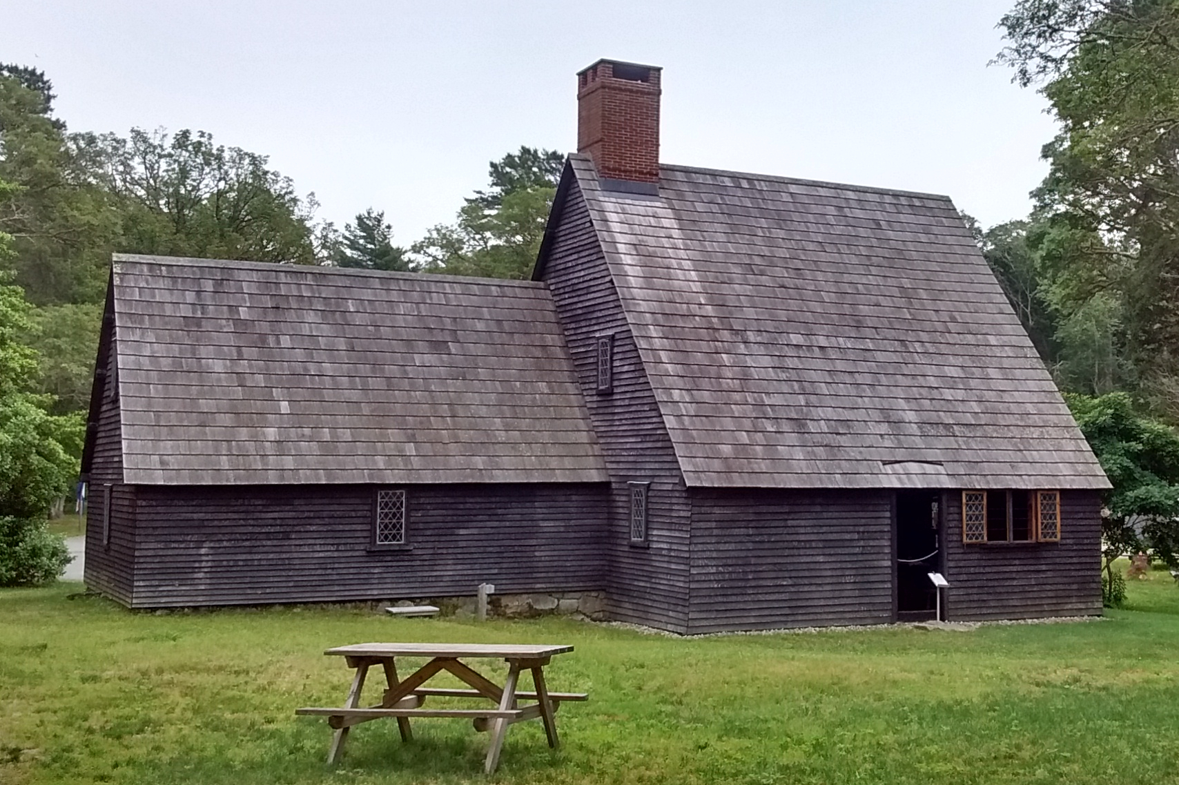 Replica of the 1627 Aptucxet Trading Post at the Aptucxet Trading Post Museum